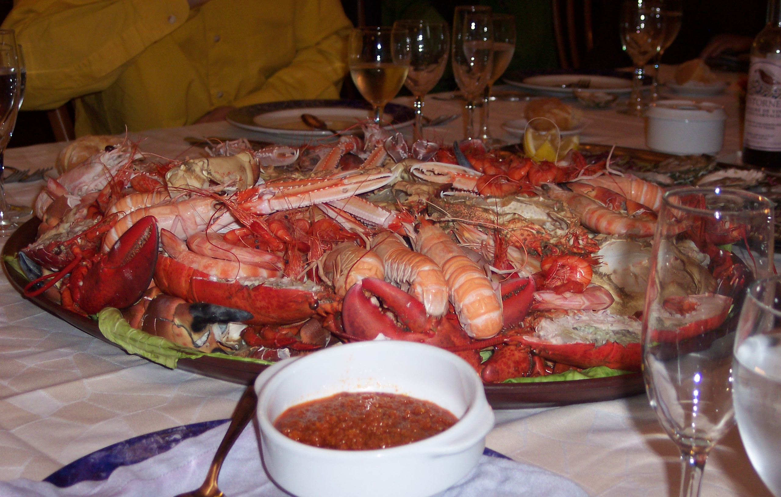 A authentic "Mariscada" from Galicia